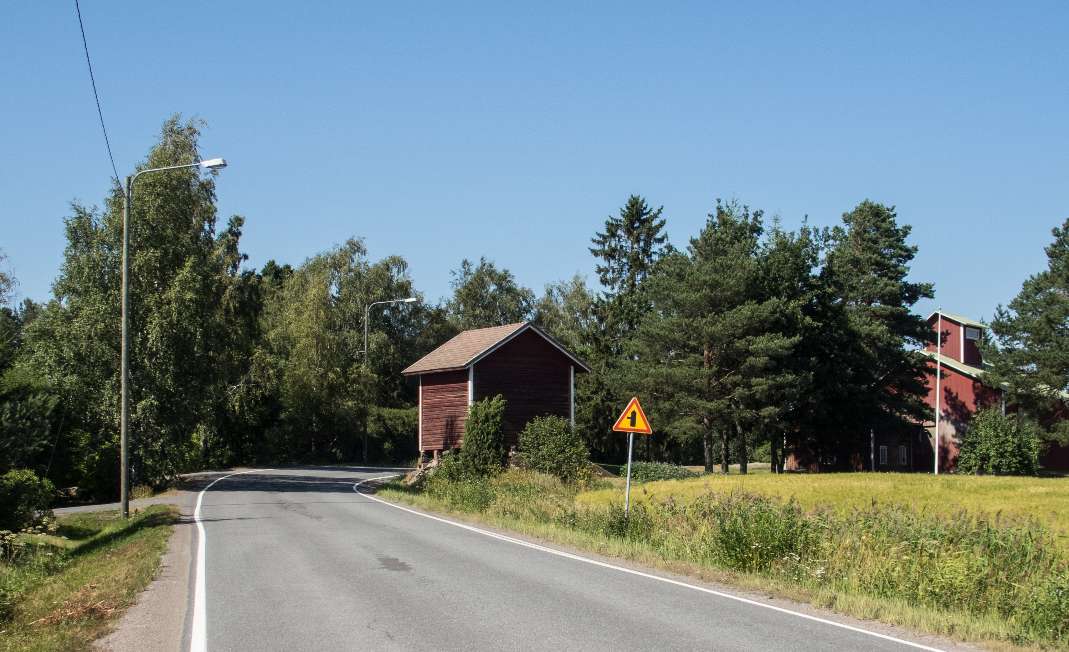 Connecting road 2070 in Lutta village, Eurajoki, Finland.